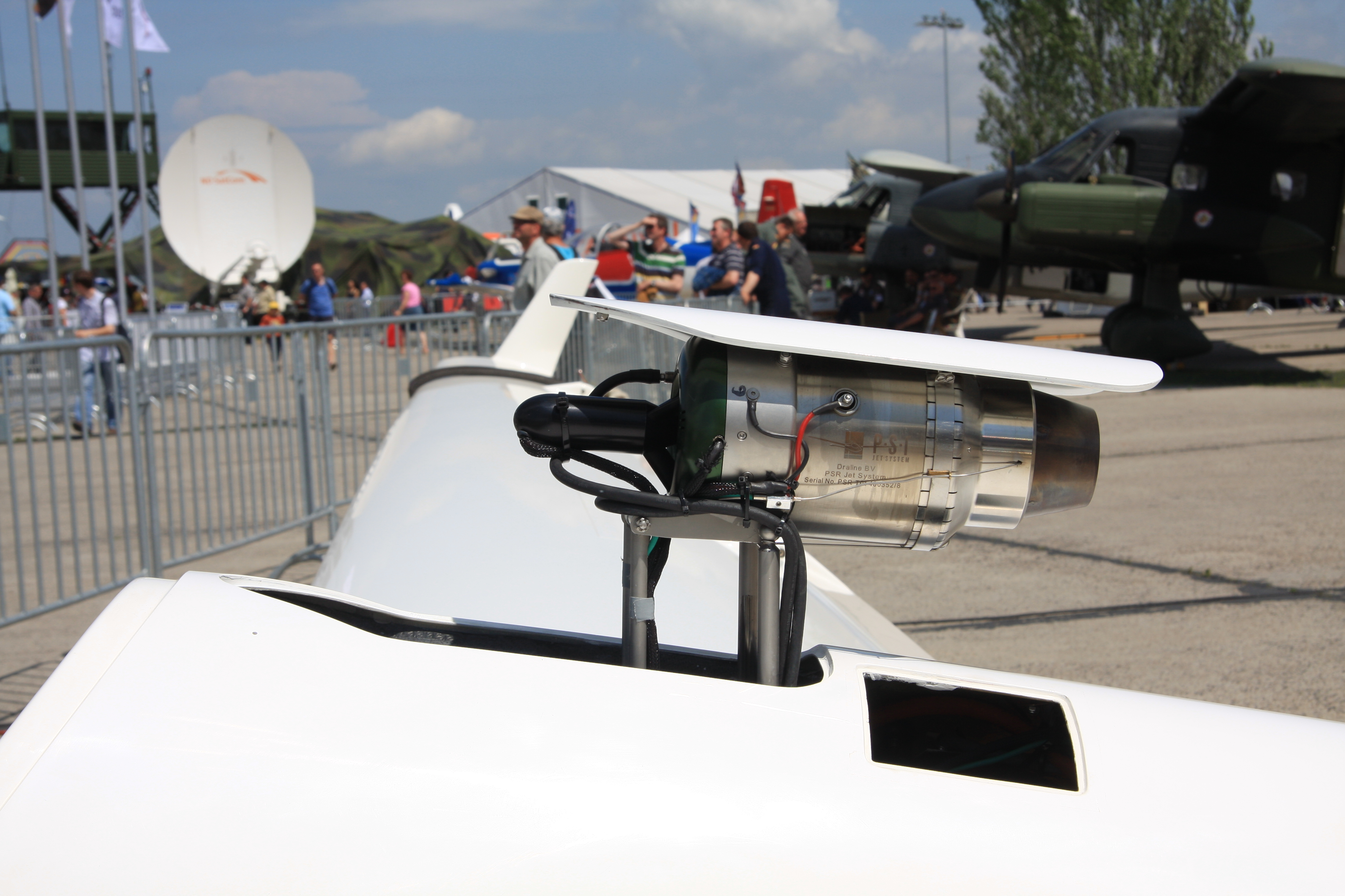 An ASW 20 CLT (picture taken during the International Air and Space Exhbition)